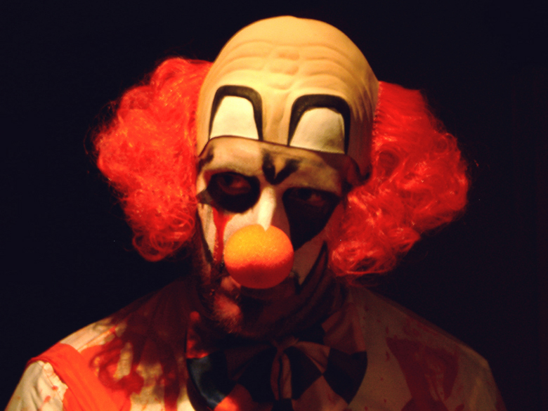 Clown.